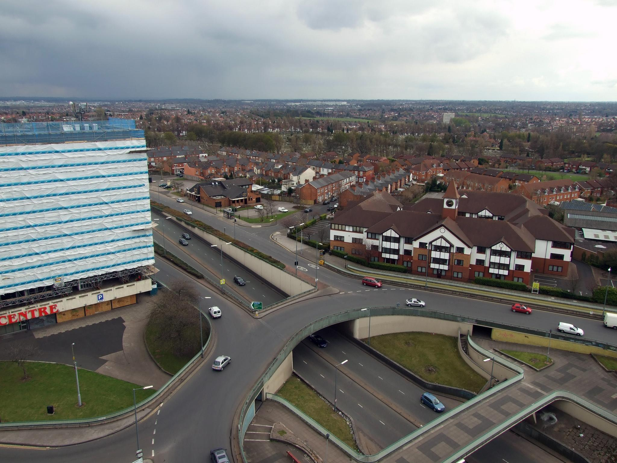 Above Swan Island Yardley Birmingham Showing the Swan Centre Flickr description: The Birmingham Flickr Group were given special permission to scale the dizzy heights above the swan shopping centre in Yardley. Dumping some uploads before the night is out. Note shows a zoom link to the airport.